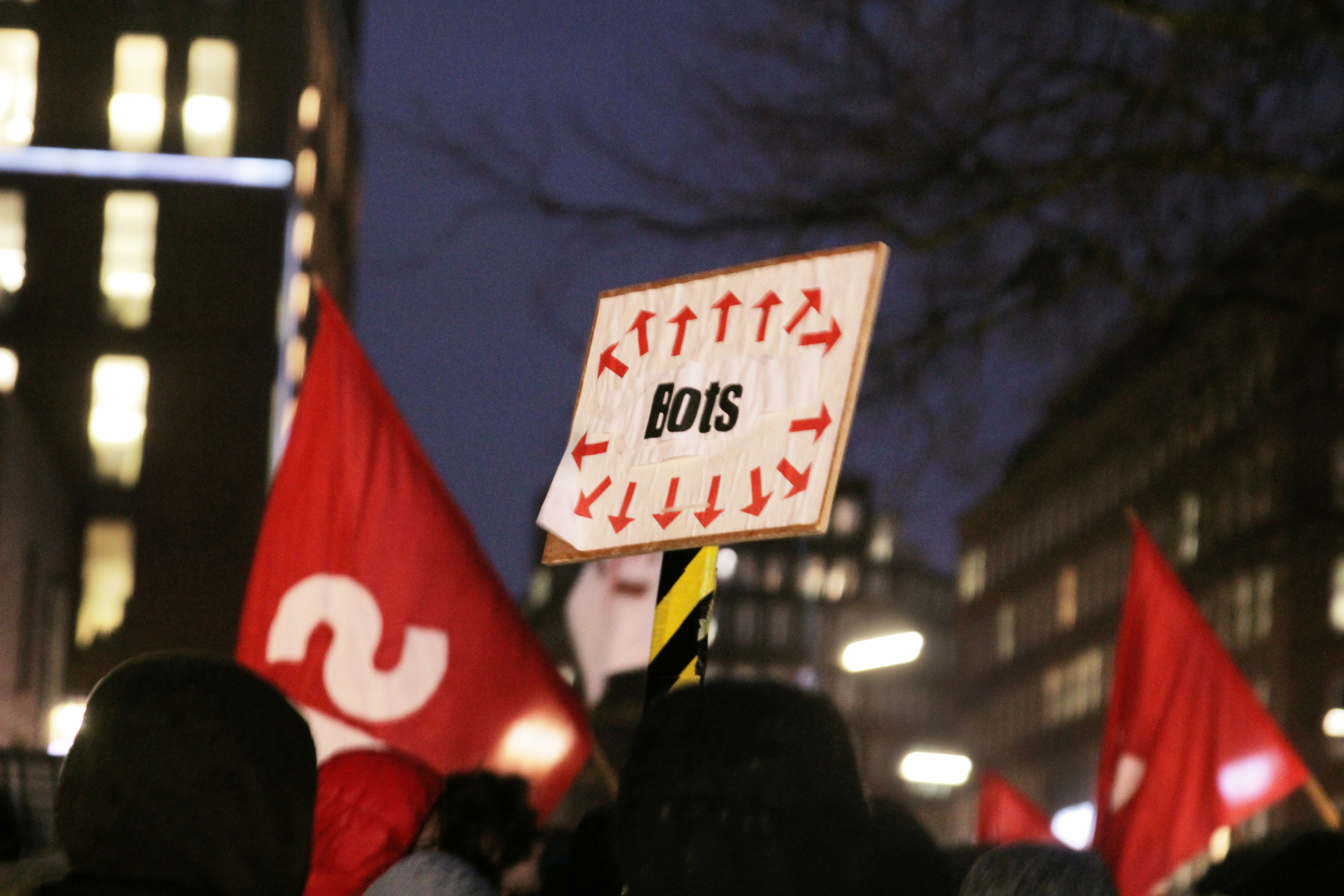 sign, referencing a politician, who thought protest emails where made by bots, demonstration organised at short notice against the EU Copyright Directive in Hamburg on 6 March 2019 after a planed early voting meeting